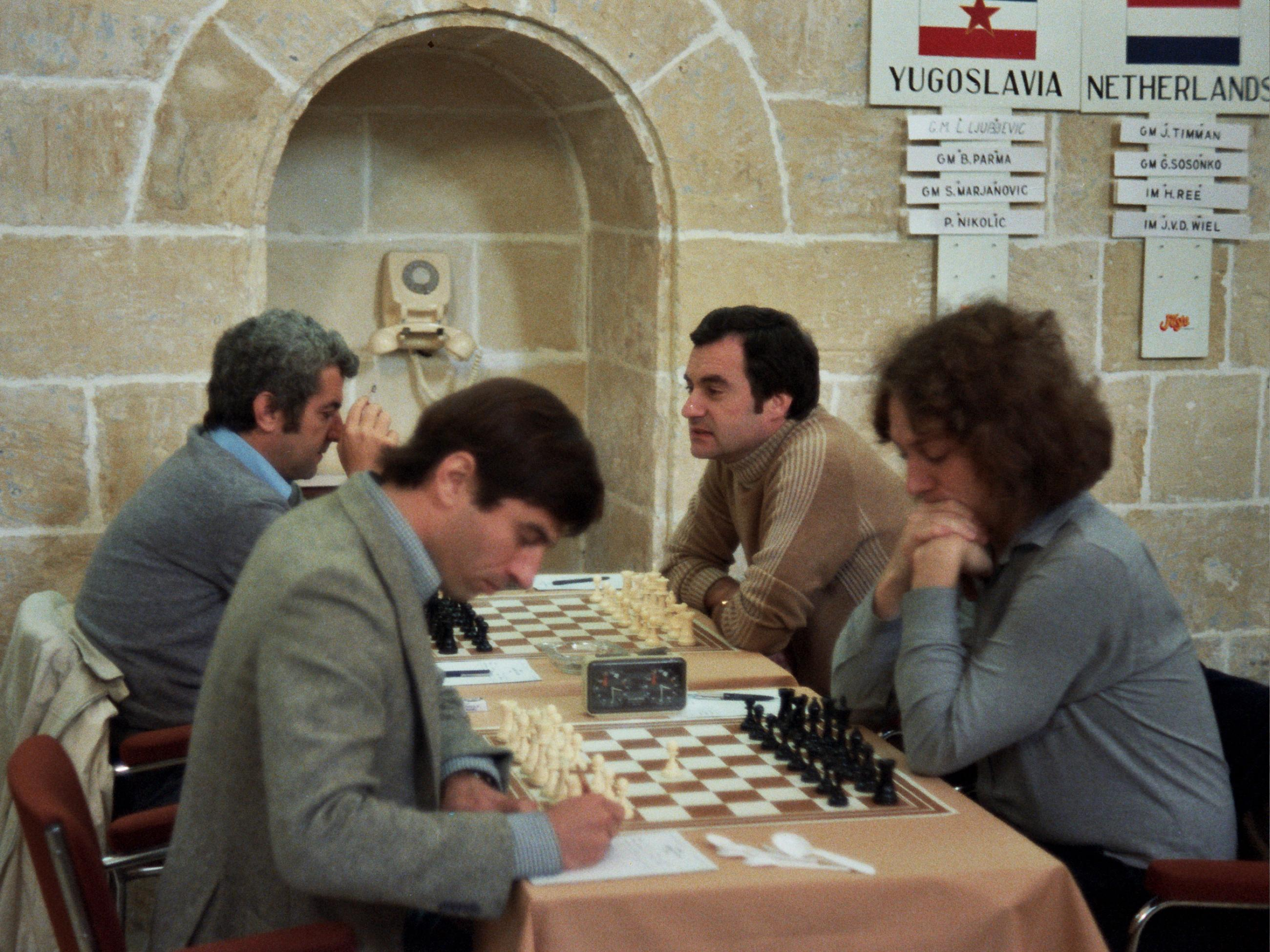 Ljubomir Ljubojevic (left in front), (Parma, Sosonko, Timman) at the Chess Olympiad 1980 in Malta, Photographer Gerhard Hund.